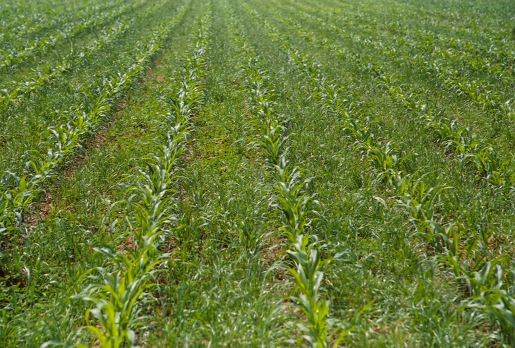 Cornfield, canton of Bern, Switzerland